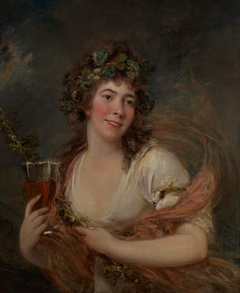 Margaret Martyr as Euphrosyne in George Colman the Elder's 'Comus'